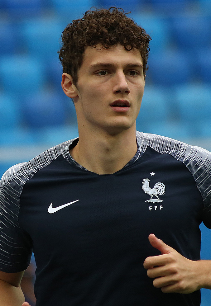 French footballer Benjamin Pavard on 9 July 2018.